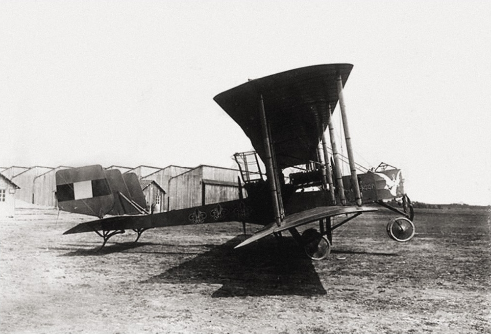 Caproni Ca.33 with Franch Insigna